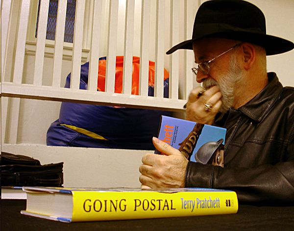 I hate the striped background with the stupid brightly colored beanbag chair looking on, but you don't really get to pose people - you're kind of nervous to go in there and take pictures at all, and just hope the poor author will properly ignore you and the poor person having their pile of books signed and their precious 30 seconds of attention will forgive you for intruding.